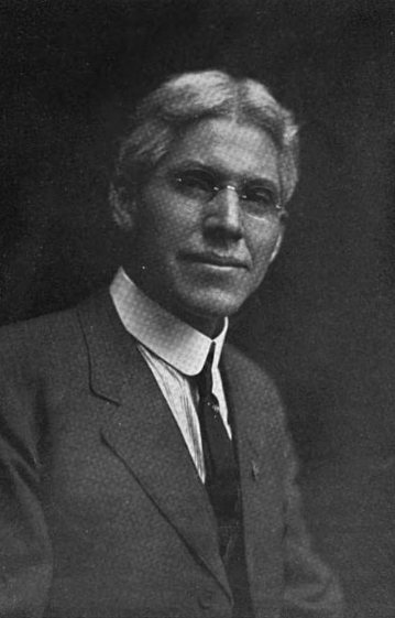 Charles R. Doxon Other information No.